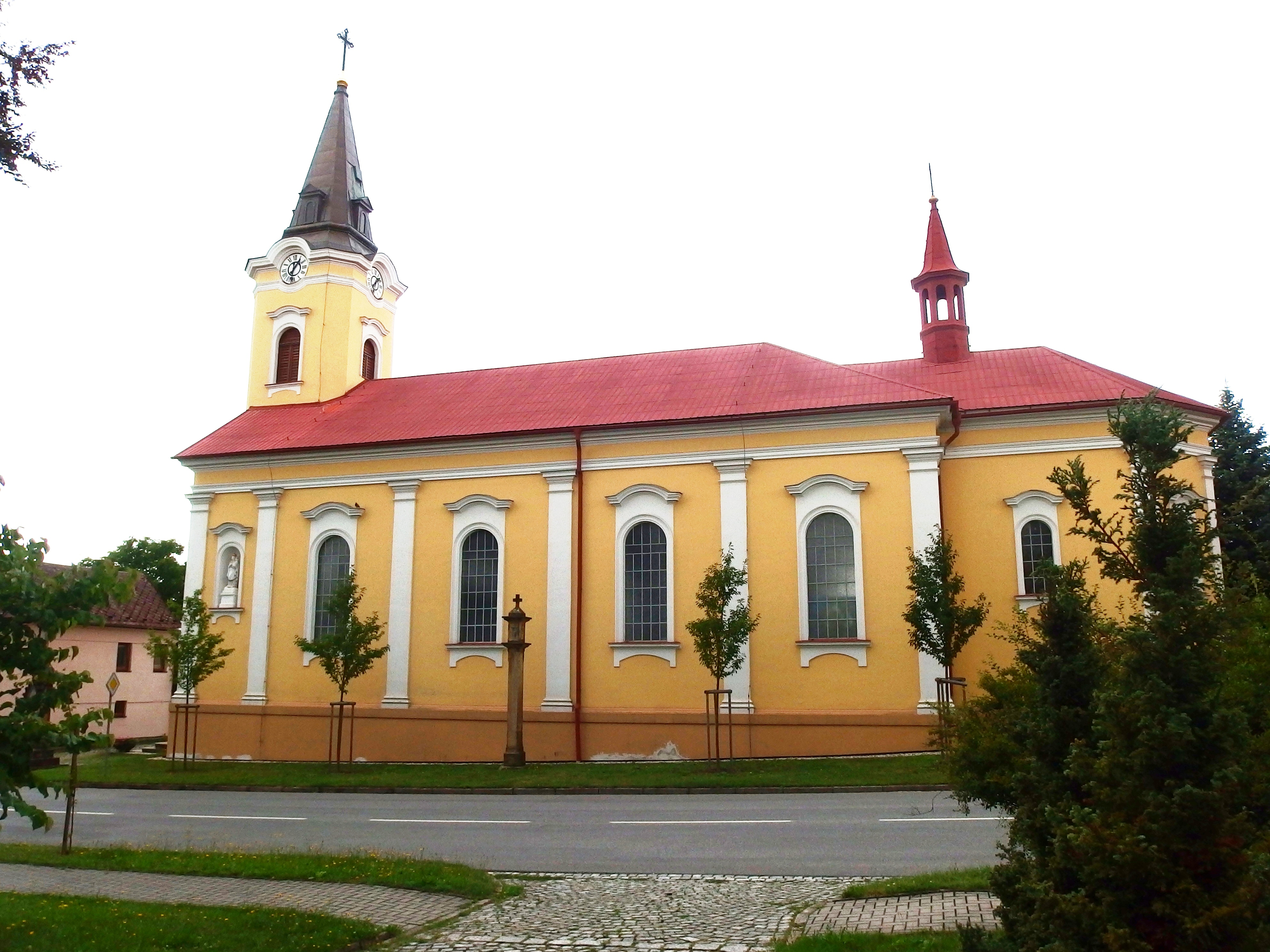 Doloplazy, Olomouc District, Czech Republic.